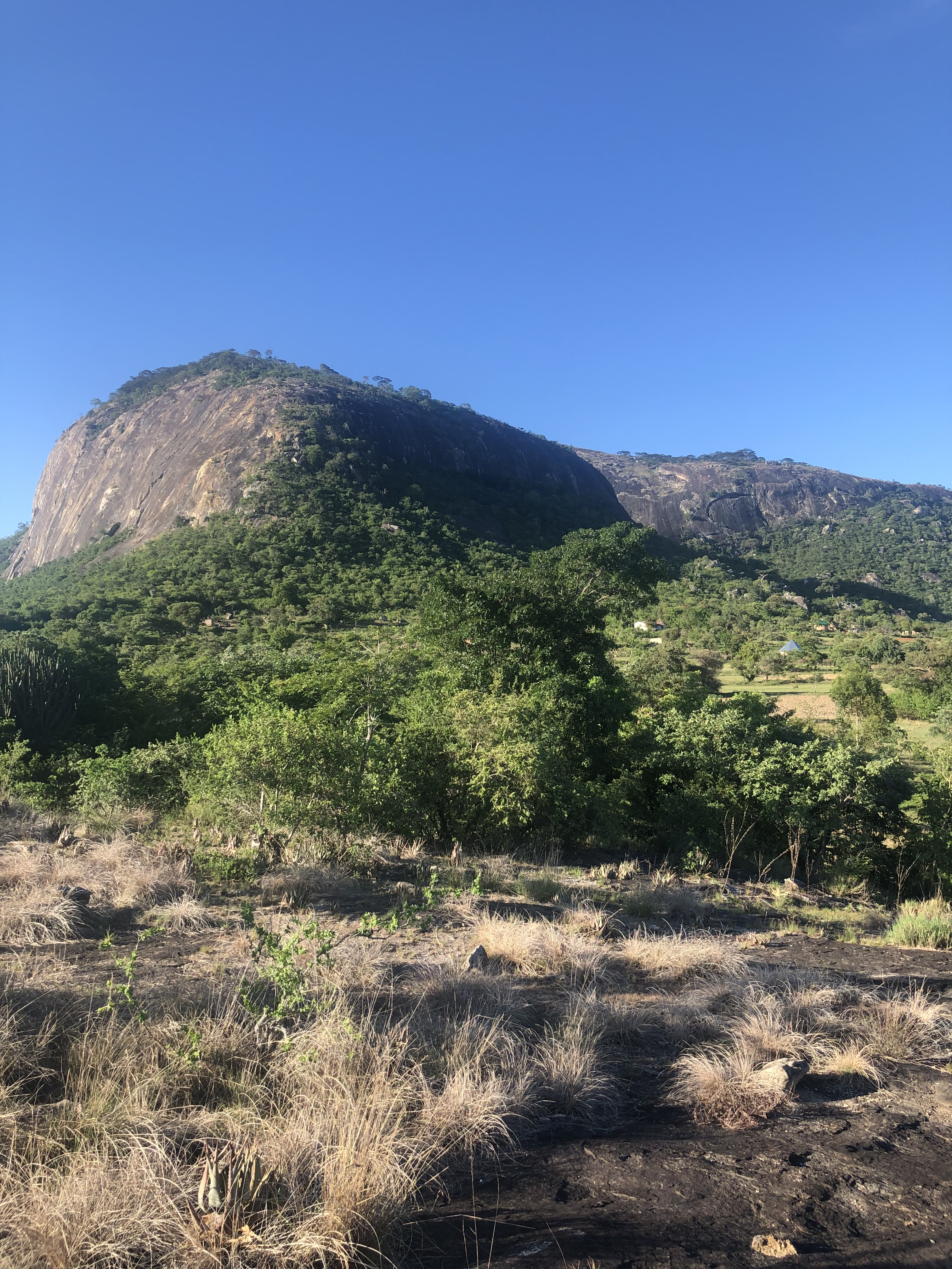 This is an image with the theme "Play" from: Zimbabwe